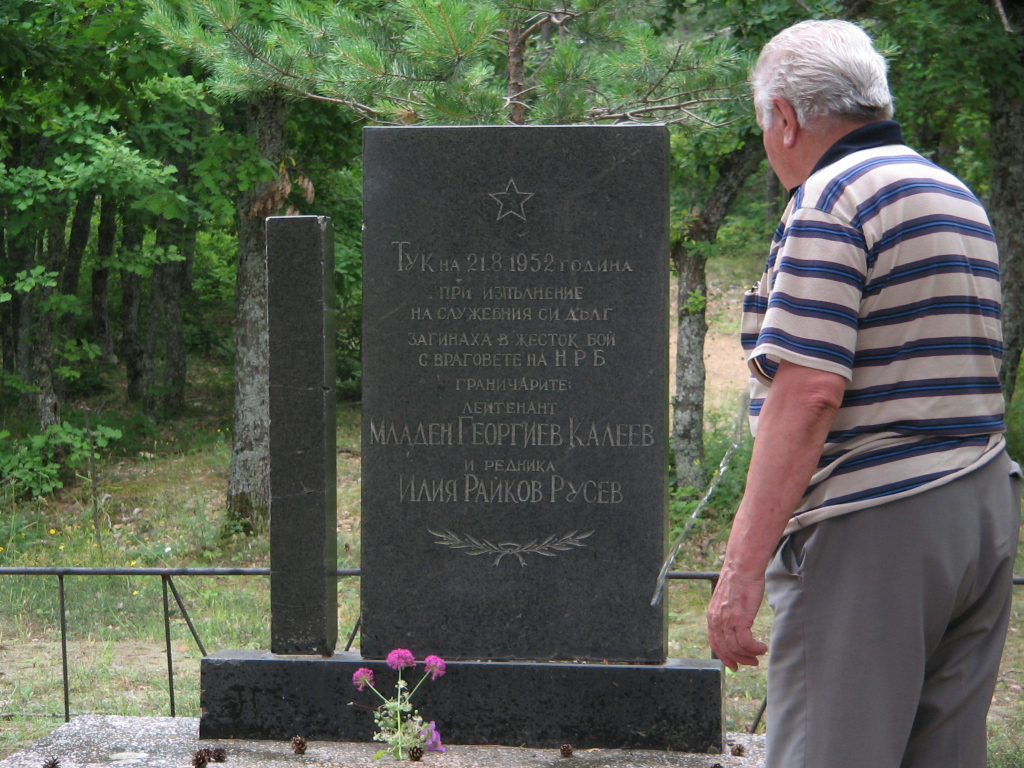 The memorial, near the village of Chernichevo (Krumovgrad Municipality, Kardzhali Province), to frontier lieutenant Mladen Kaleev of v. Rogozen (Hayredin Municipality, Vratsa Province)